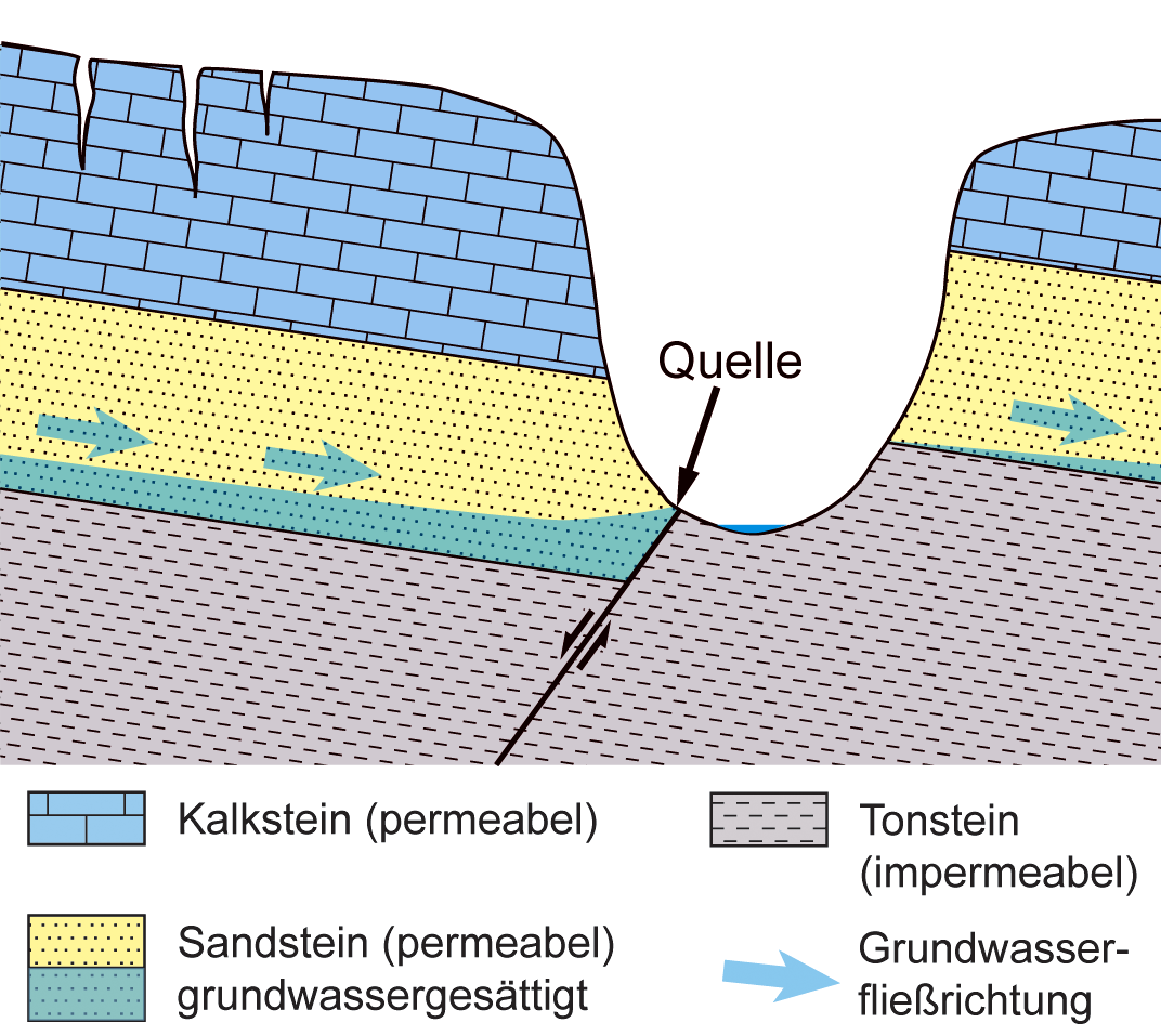 Schematic depiction of the geologic conditions at a fault spring. Without the fault (a normal fault) the ground water would stay within the sandstone aquifer without being dammed and forced up at the fault plane.